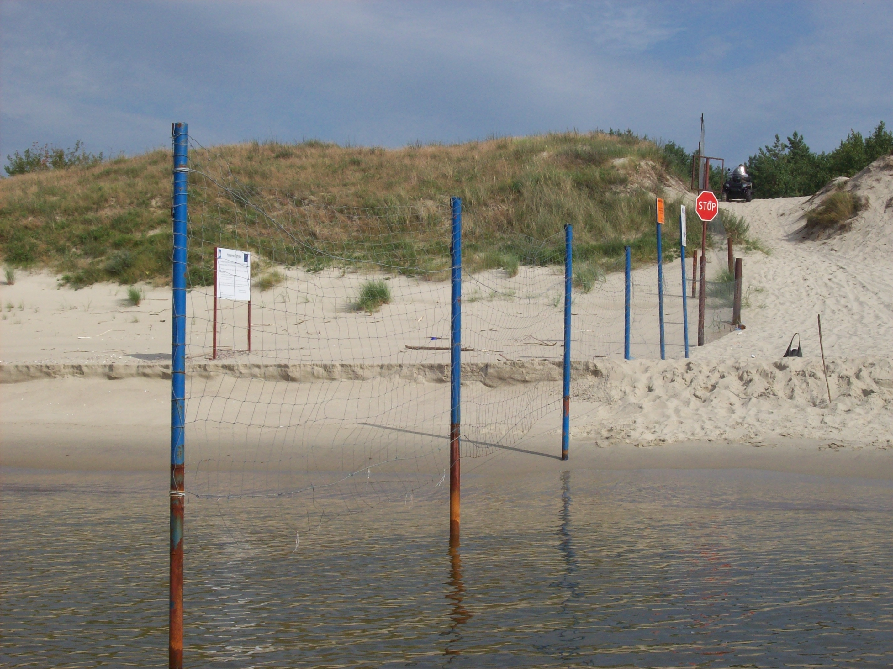 Vistula spit - Polish state border.